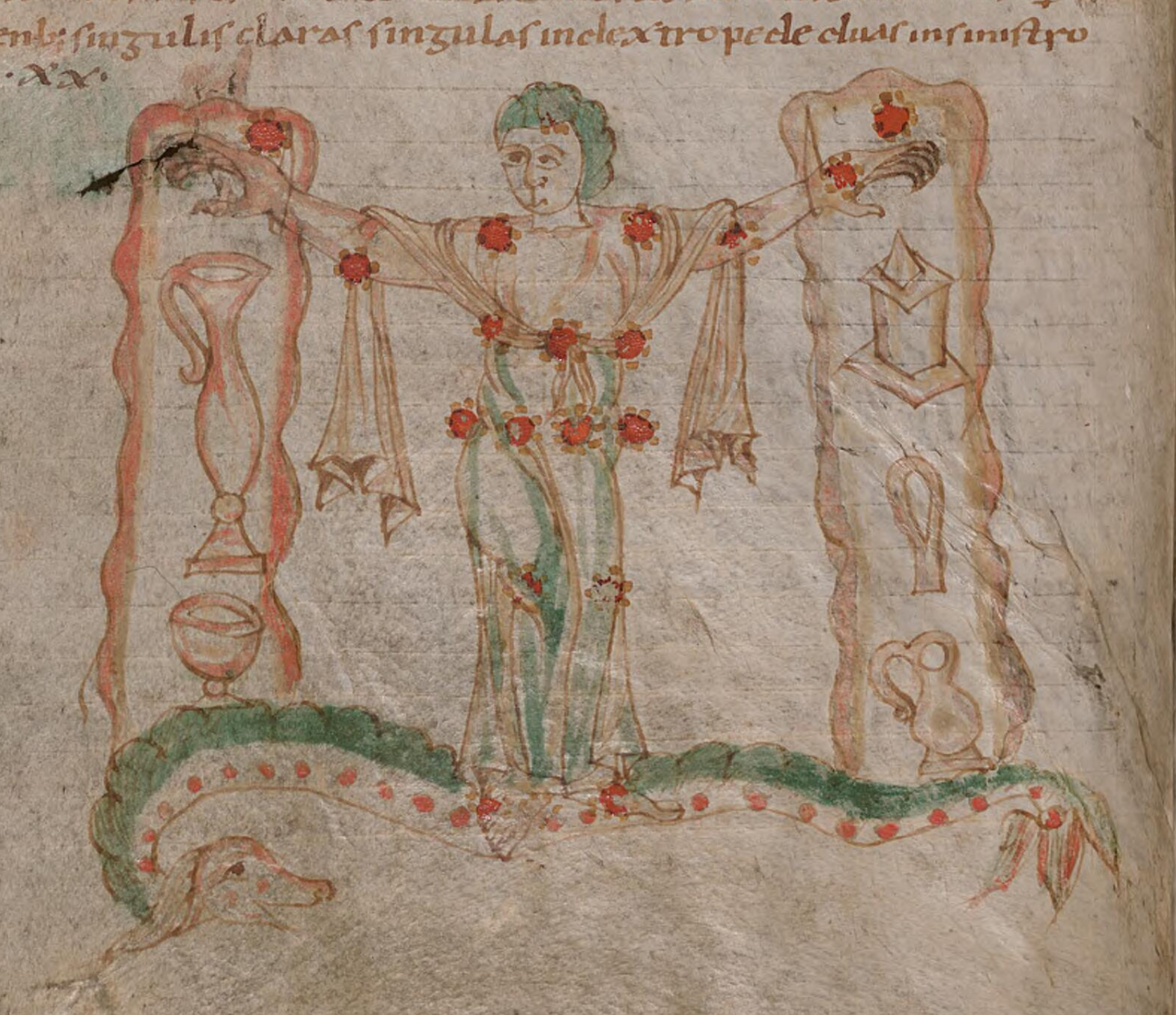 The oldest scientific manuscript in the National Library the volume contains various Latin texts on astronomy. The volume, written in Caroline minuscule, consists of two sections, the first (ff. 1-26) copied c. 1000, in the Limoges area of France, probably in the milieu of Adémar de Chabannes (989-1034), whilst the second (ff. 27-50), from a scriptorium in the same region, may be dated c. 1150.